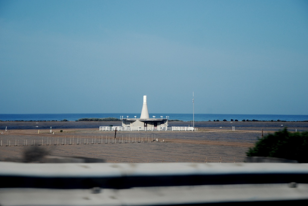 The Oceanside VORTAC photo in Southern California